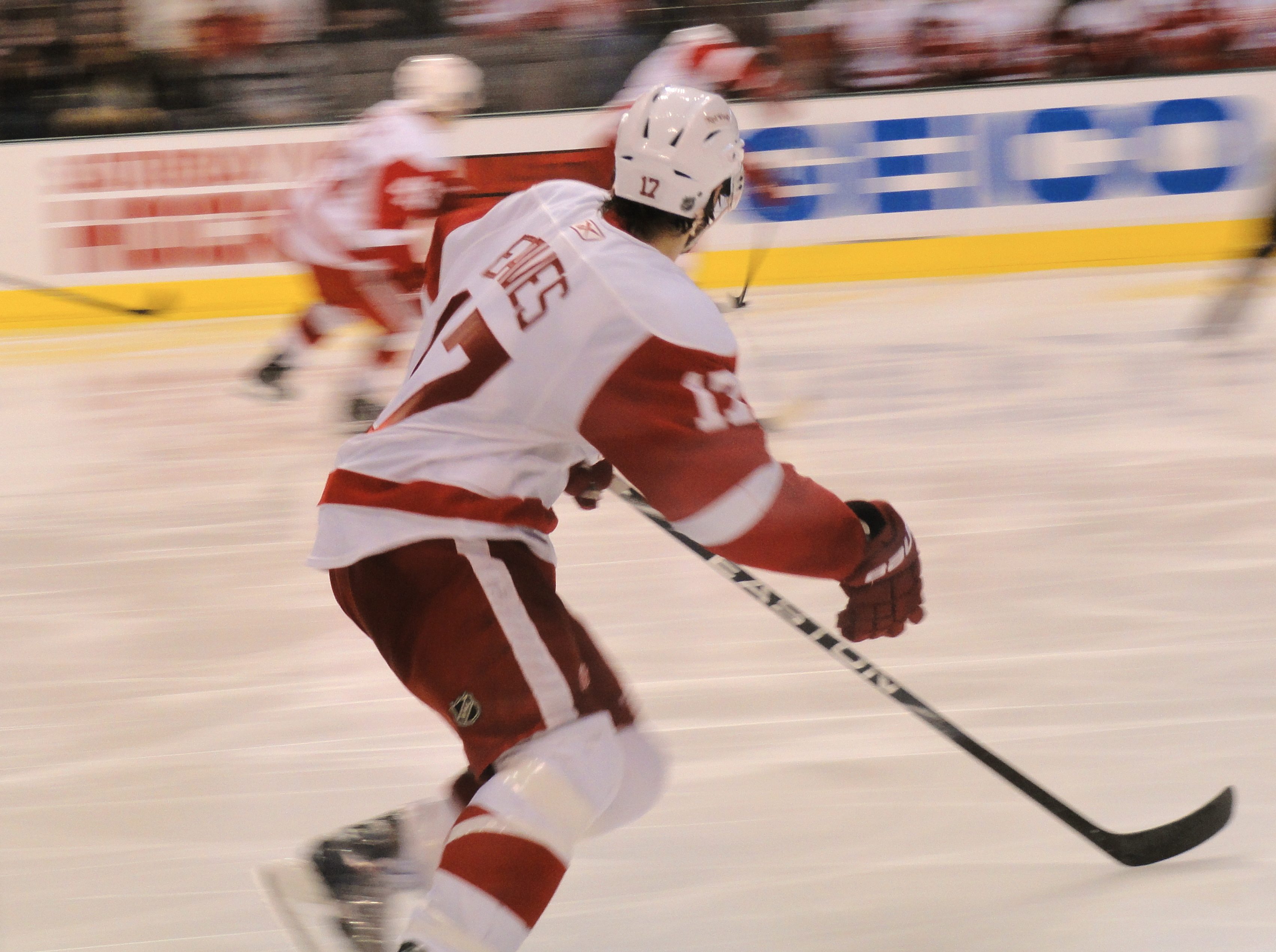 Patrick Eaves in action against the Dallas Stars